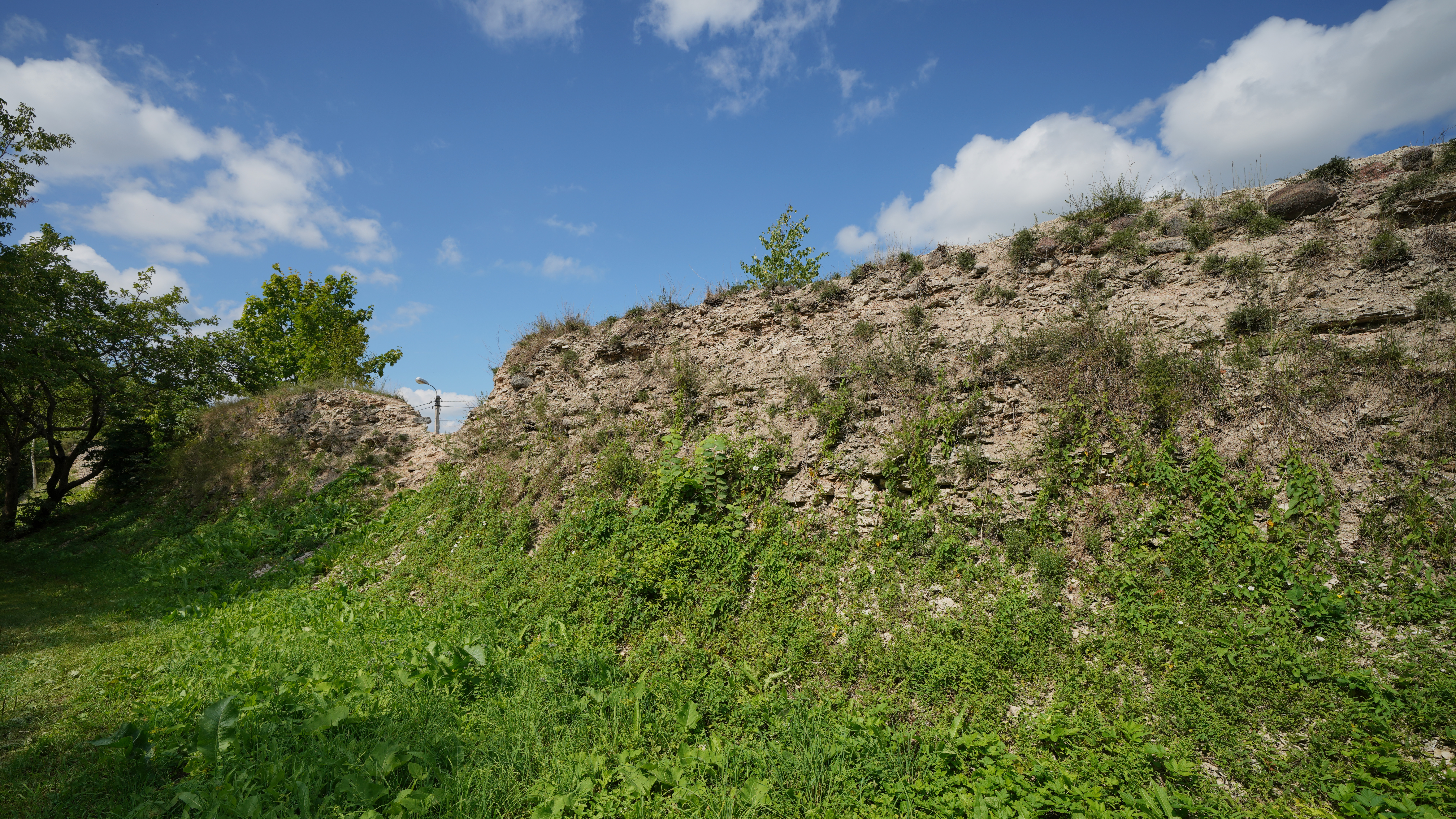 Fortification remains on Gremyachaya Hill in Pskov, Russia